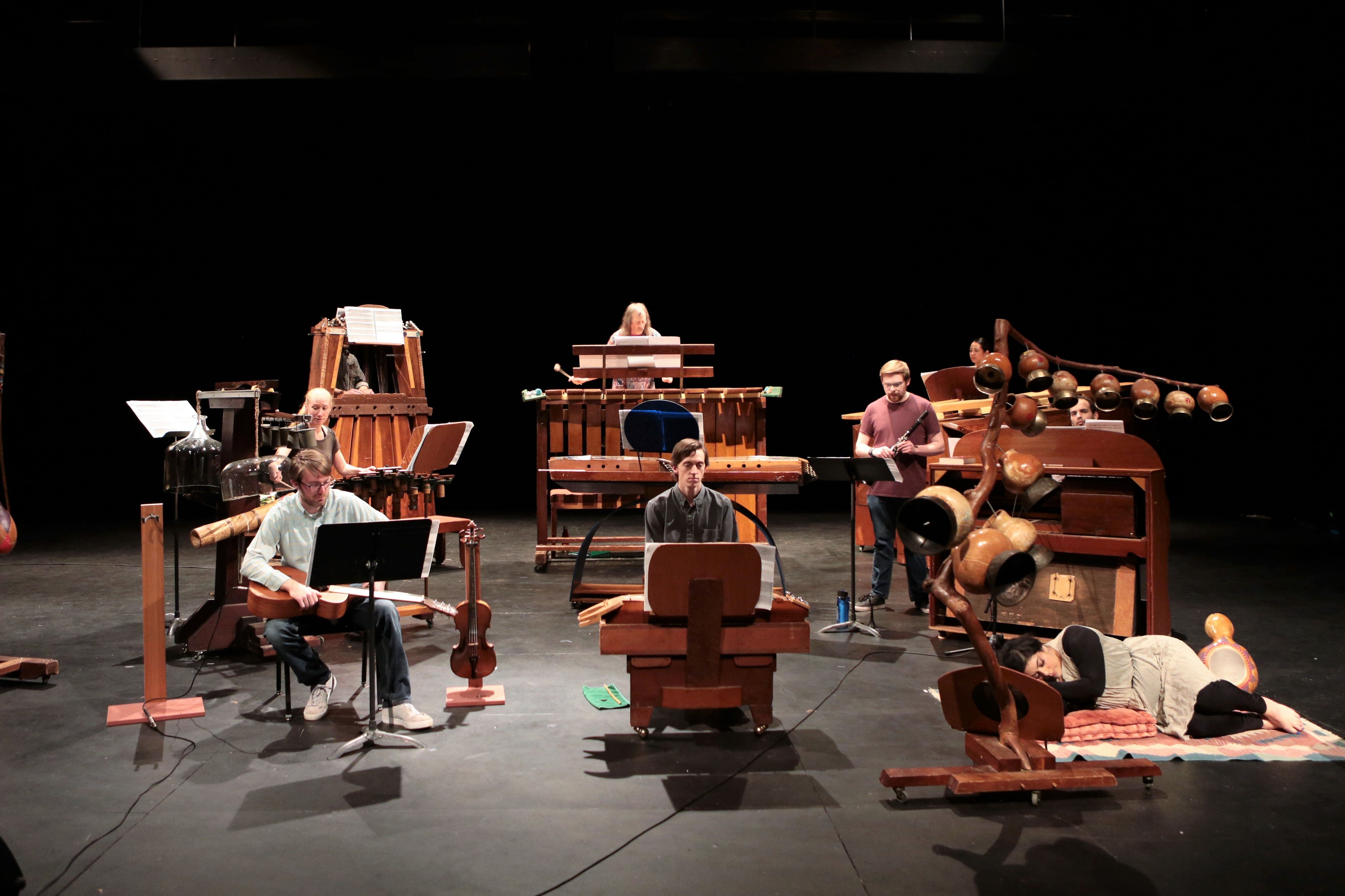 The Harry Partch Ensemble, under direction of Charles Corey, premiering The Bewitched: A Ballet Satire. April 2019, Seattle, Washington